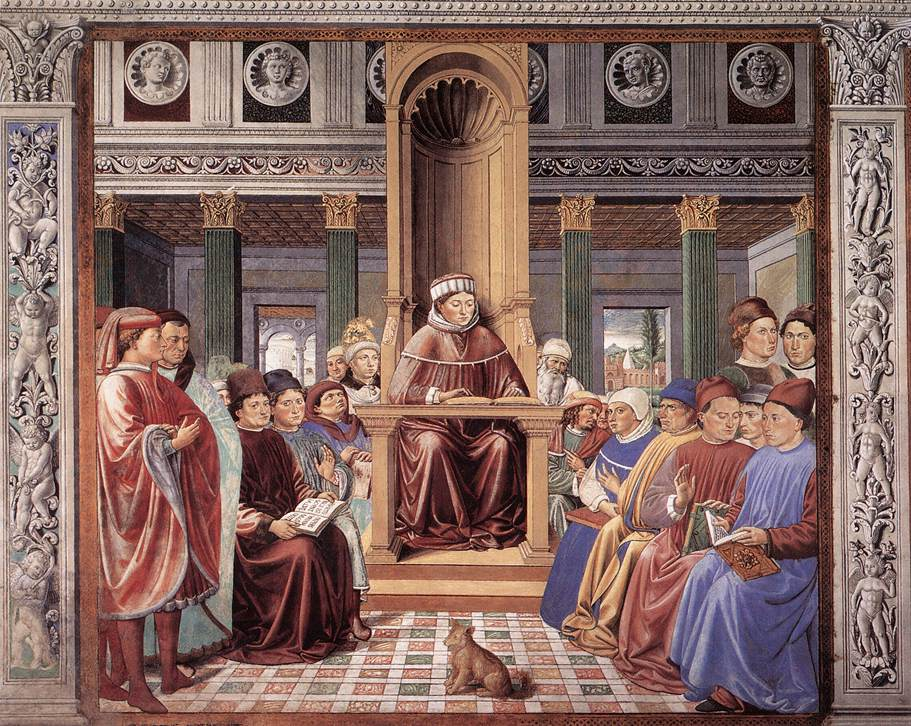 St Augustine Teaching in Rome (scene 6, south wall) 1464-65 Fresco, 220 x 230 cm Apsidal chapel, Sant'Agostino, San Gimignano